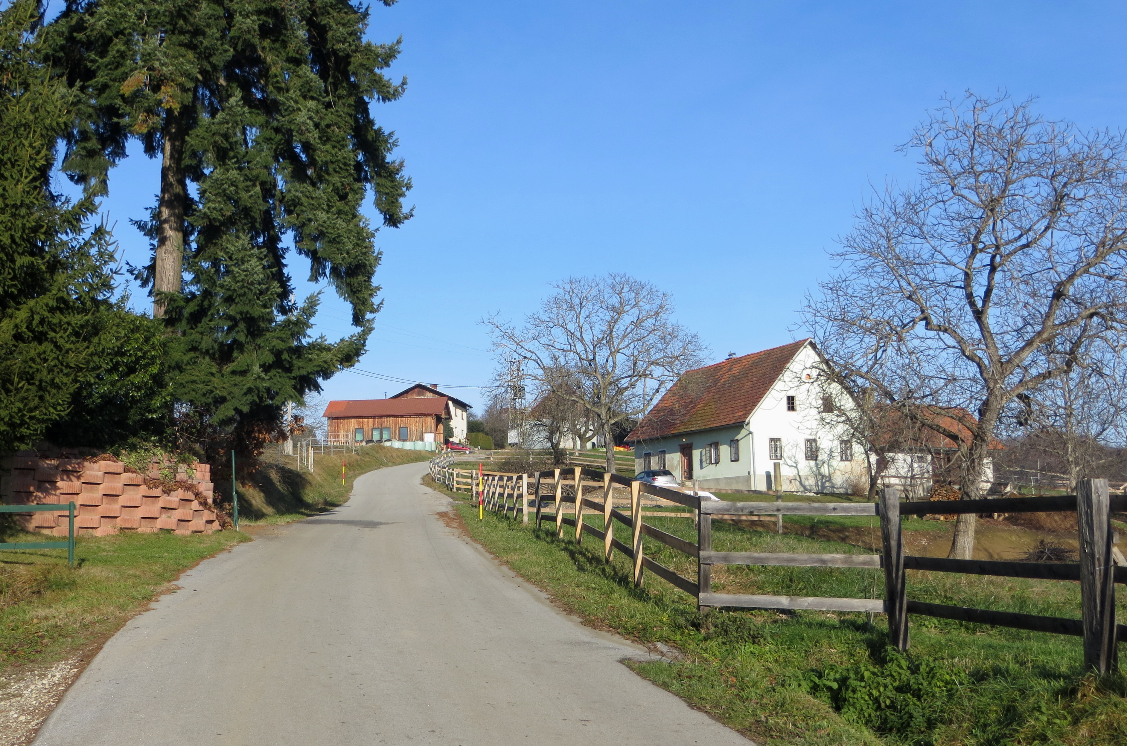 Krčevina pri Vurbergu, Municipality of Ptuj, Slovenia